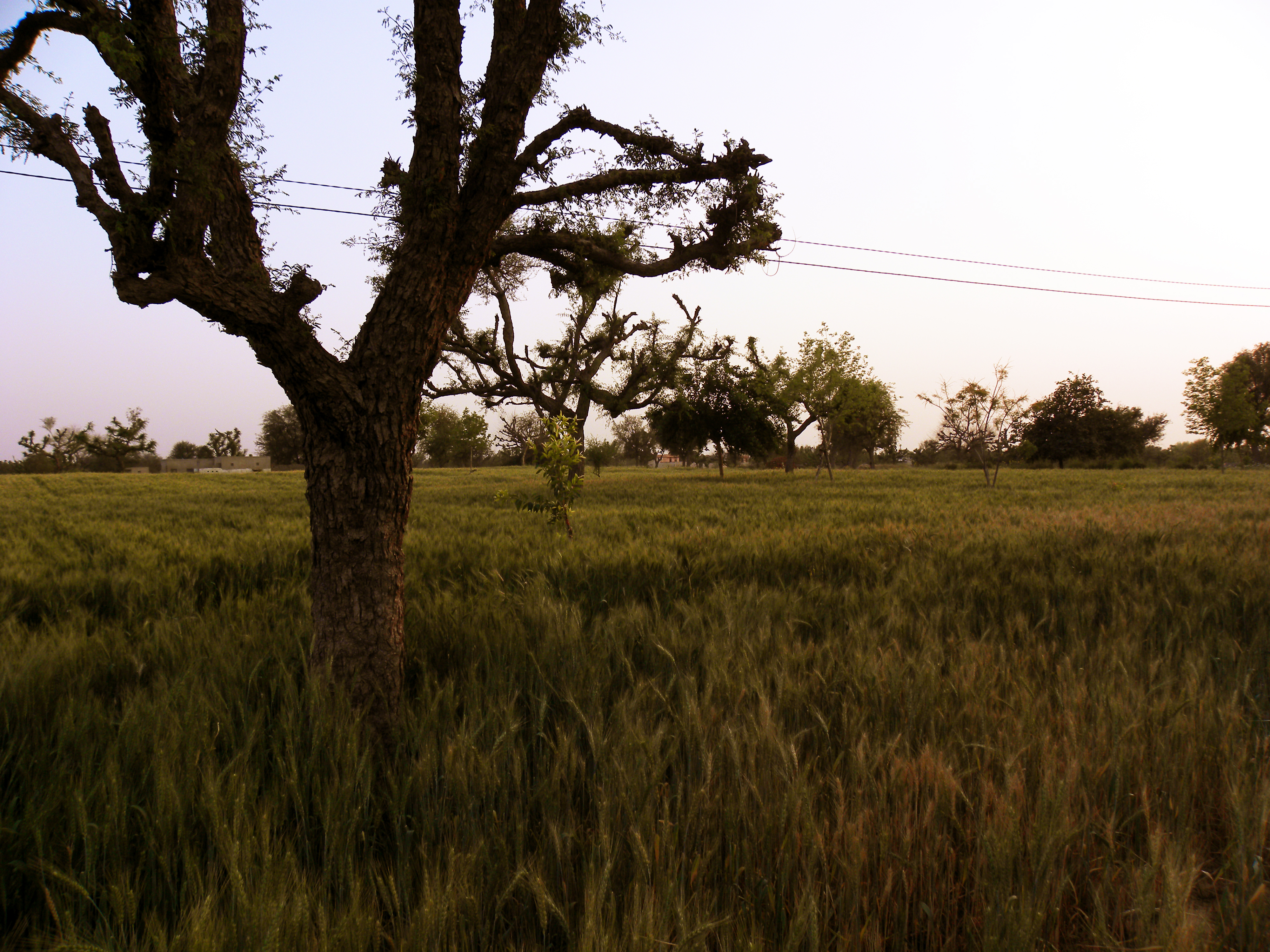 A Wheat cultivated farm in Bhoodha Ka Bas village in the month of March